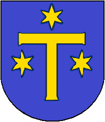 Coat of arms of Sankt Antönien, Canton of Grisons, Switzerland